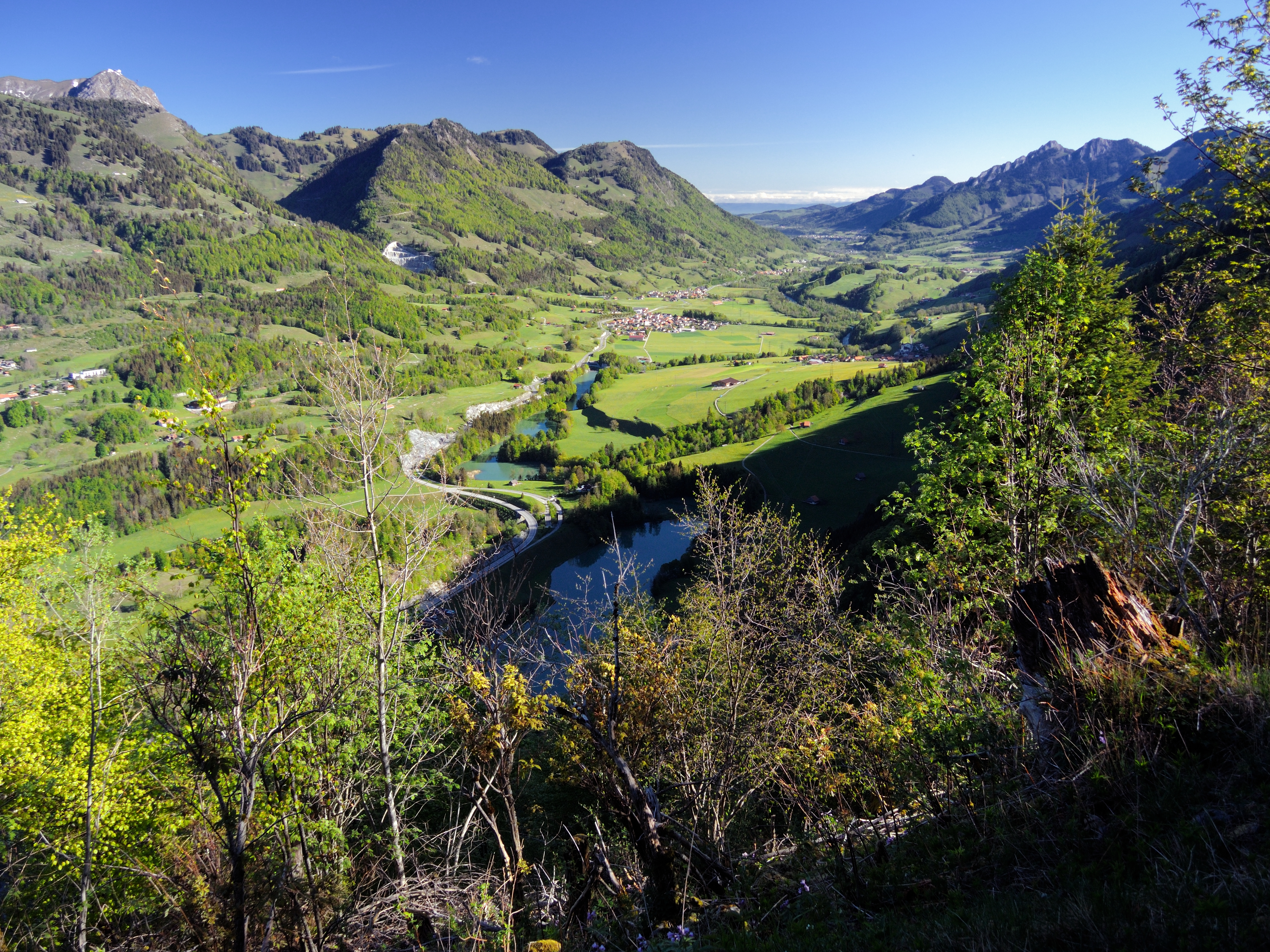 Intyamon valley from Sonlomont (above Montbovon)